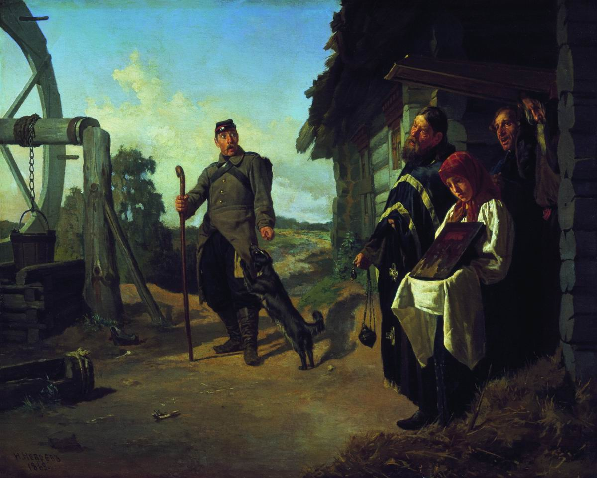 Nikolai Nevrev (1830-1904) Return of the Soldier home